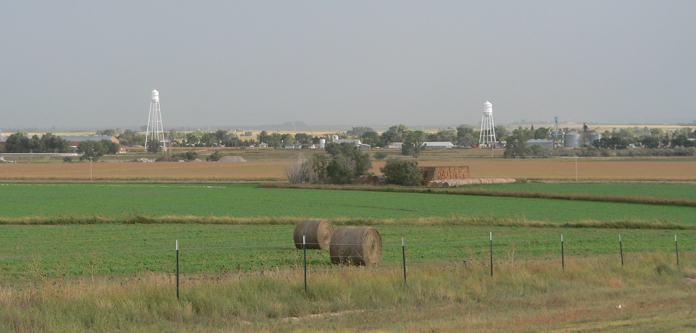 Lyman, Nebraska, seen from the northwest, from Nebraska Highway 79C.